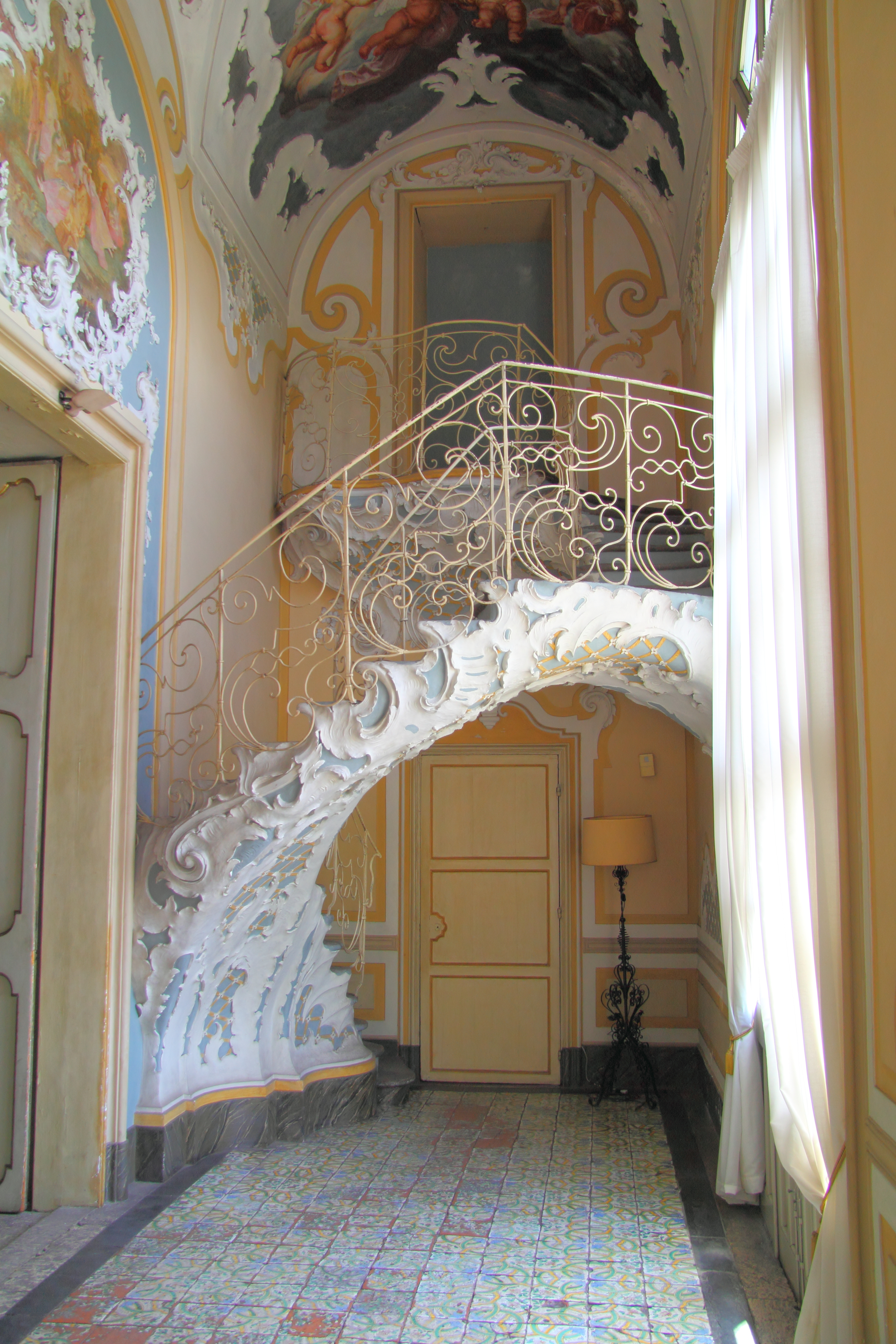 Catania, Sicily: Palazzo Biscari